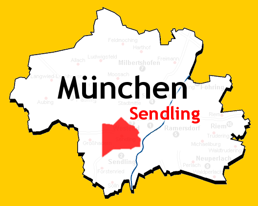 Operation Area of the Munich Volunteer Fire Brigade - Sendling Department